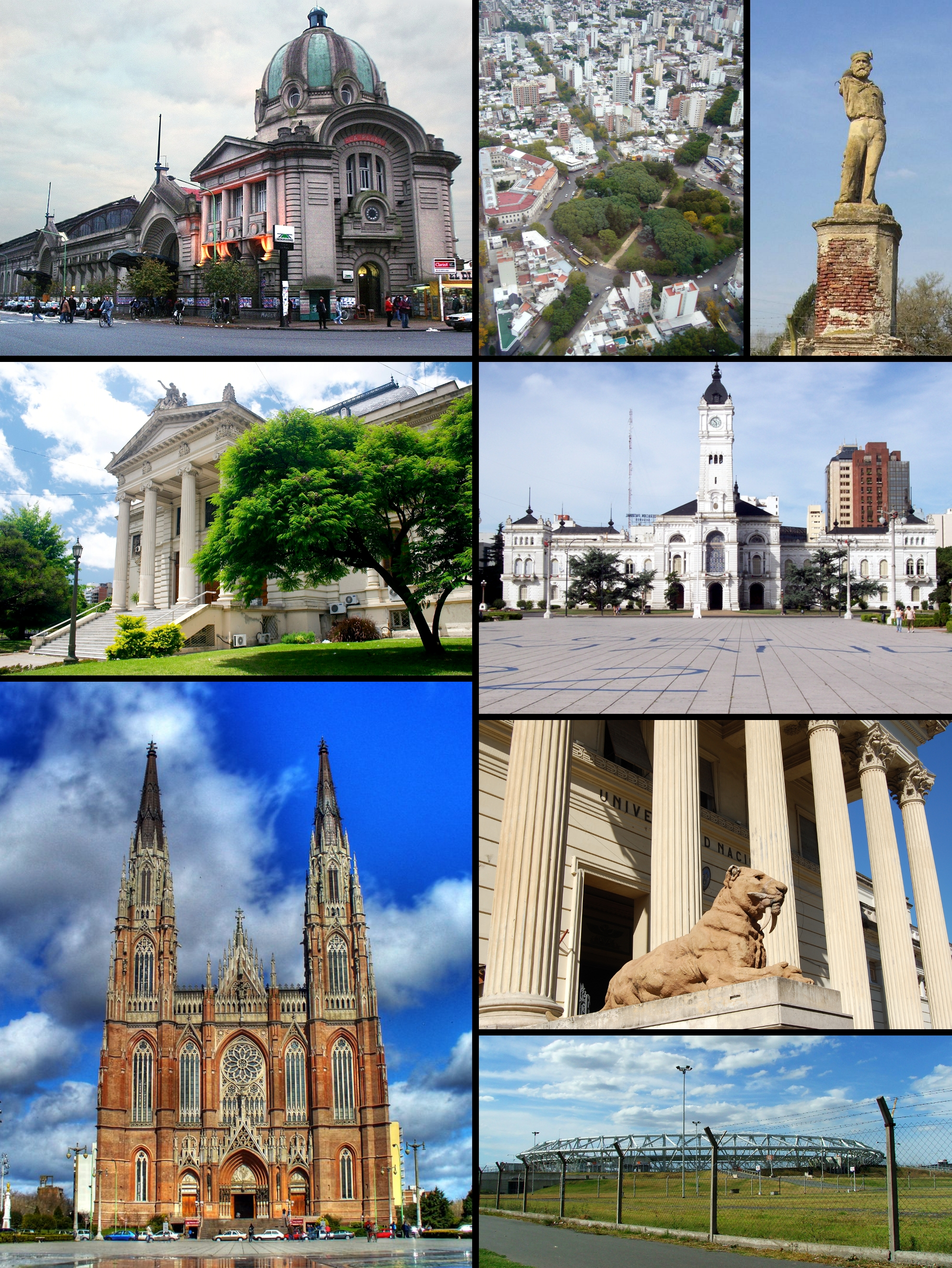 It is a compilate image of differents places of La Plata City.